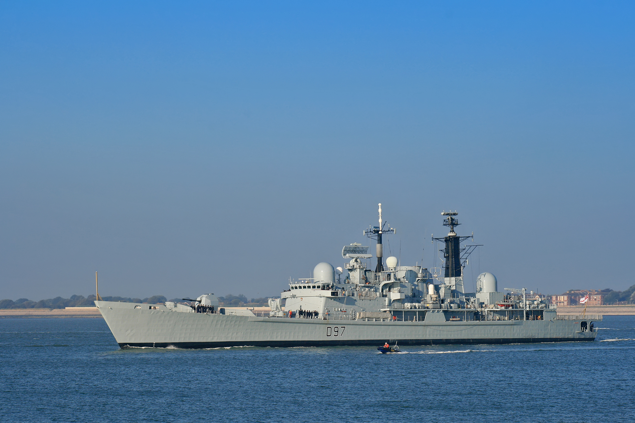 HMS Edinburgh, a Type 42 Batch 3 area air-defence destroyer of the Royal Navy, outward bound from Portsmouth Naval Base, on 11 October 2010. Image uploaded by me George Hutchinson using a photograph supplied by Brian Burnell. The photograph should be attributed to Brian Burnell. Wikipedia editors are reminded that the copyright remains with the photographer, and that the terms of the Creative Commons Attribution-ShareAlike 3.0 Unported Licence that allow editors to reuse this image apply to Wikipedia editors also, as they do to other reusers of this image. Breaches of the licence terms are not only unlawful, but are also antisocial, in that breaches discourage photographers from making their images freely available to everyone without payment. Non-Wikipedia users are requested to advise Brian Burnell of its use other than on Wikipedia.